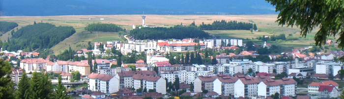 My personal photo from my personal website